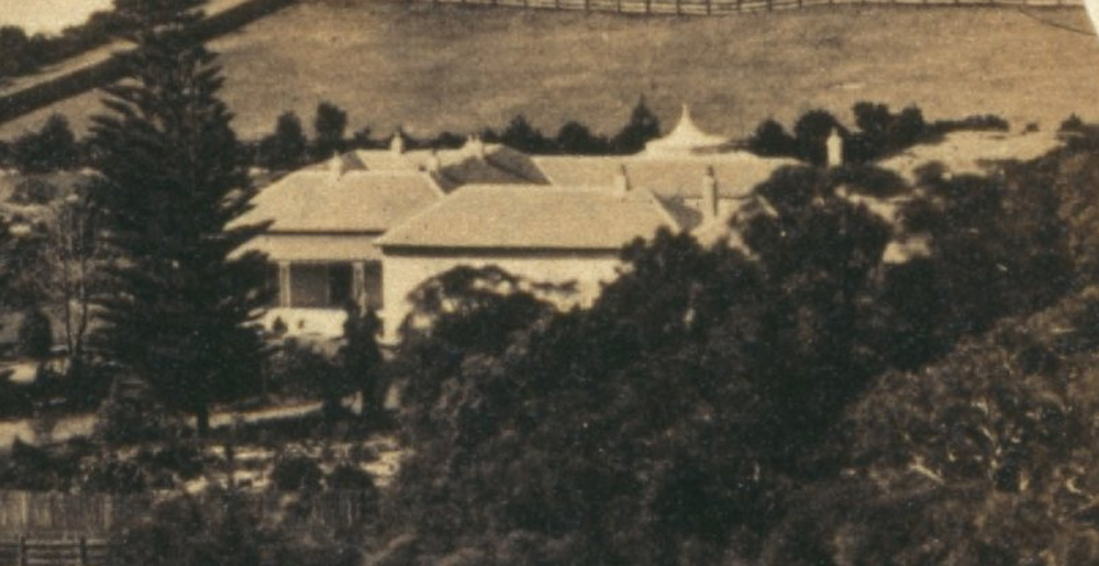 Rose Bay Cottage, Rose Bay circa 1855 when owned by Sir Daniel Cooper